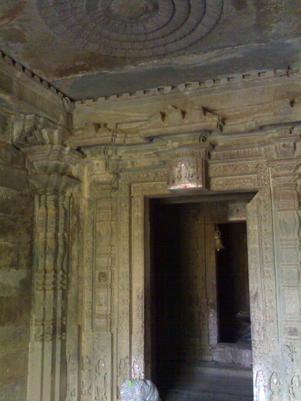 Chandramouleshwara temple Unkal Source and Author : Manjunath Doddamani, Gajendragad / Hubli, Karnataka(North), India